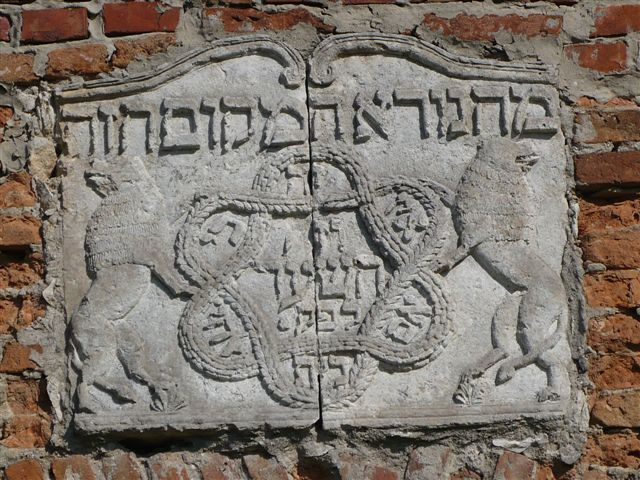 Synagogue in Krzepice